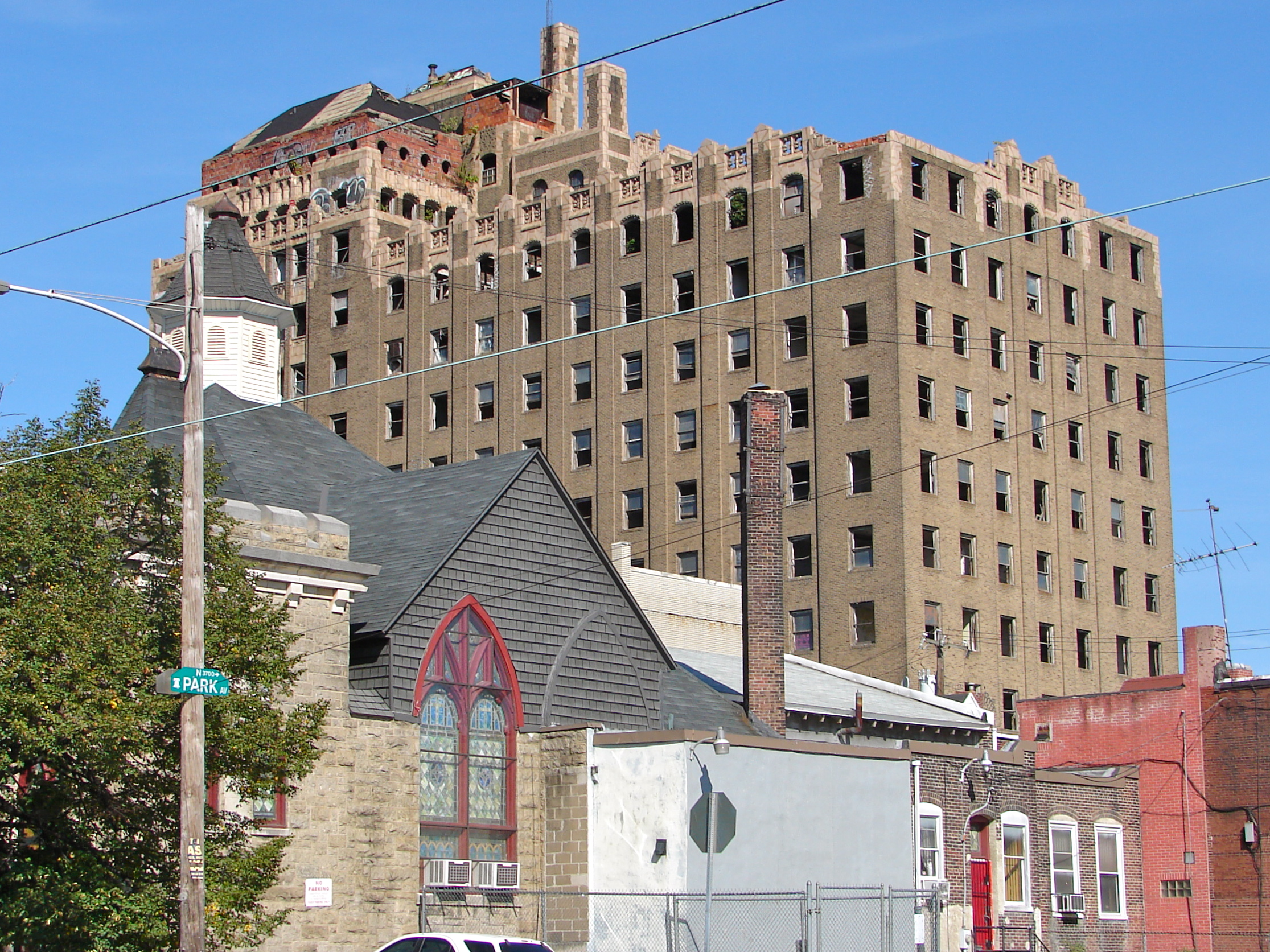 National Bank of North Philadelphia on the NRHP since May 20, 1985. At 3701 North Broad St. in the Nicetown–Tioga neighborhood of North Philly. Note that the address can be confusing: Old York Road and Broad Street cross here at a very acute angle; the bank building immediately south of this building has an address of (approx.) 3731 North Old York Road. The building is impressive in that it is about 10 stories taller than anything nearby, in that it does not look like a bank, and in its state of deterioration.